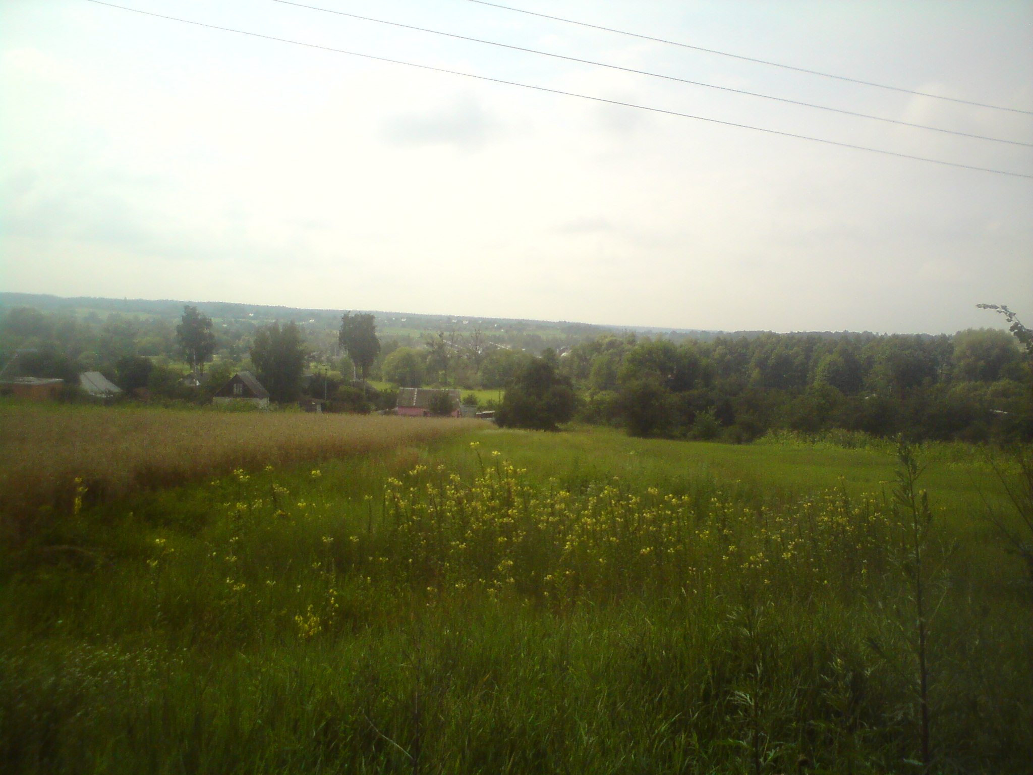 Sosnivka, Makariv Raion